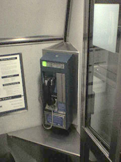 An Amtrak Railfone booth